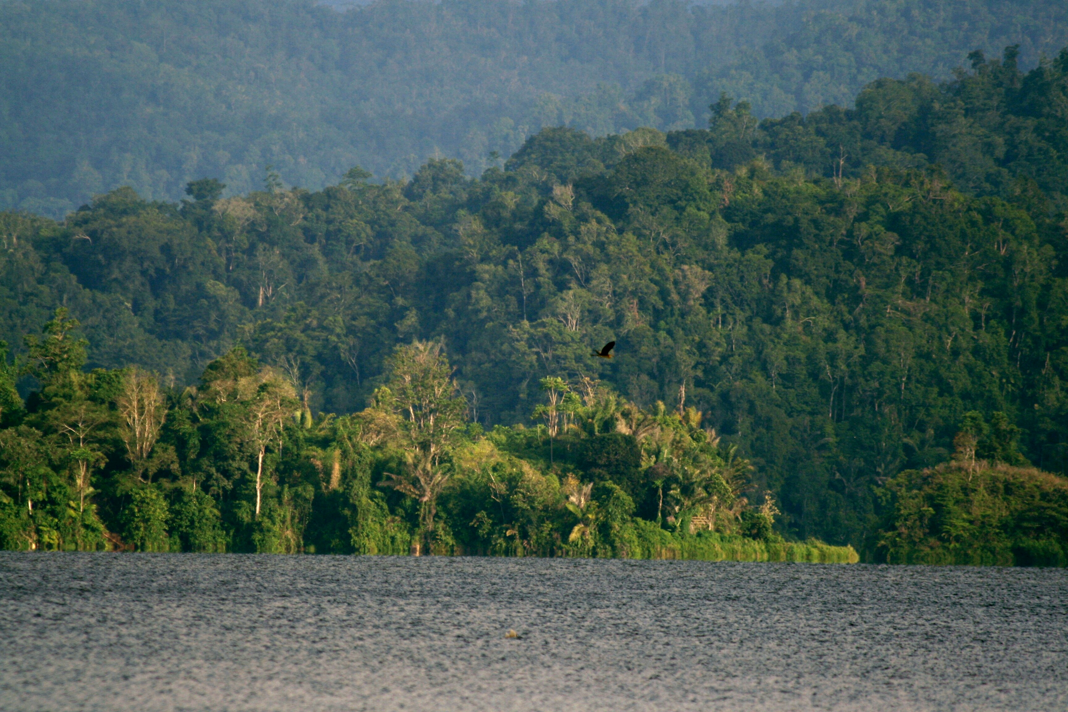 Danau Lindu in Lore Lindu National Park, Central Sulawesi, Indonesia